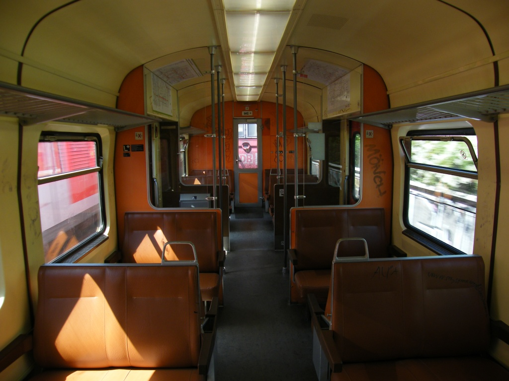 interior (2nd class) in original condition of an x-class coach of DB AG.